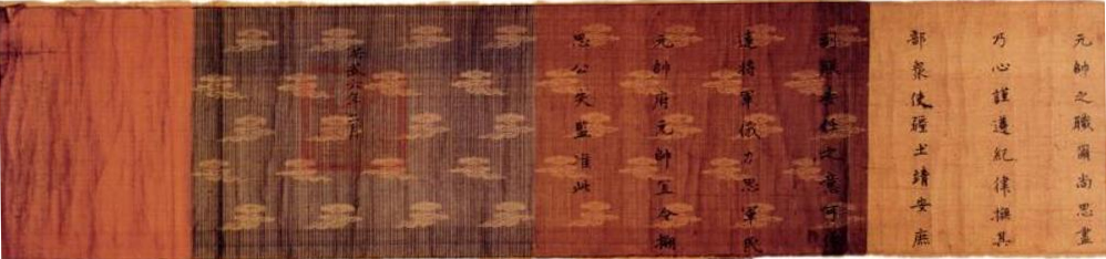 Emperor Hongwu's Edict on Appointing Chos-Kun-Skyabs as the General of the mNgav-ris Military and Civil Wanhu Office, 244cm long, 35cm high, preserved in the Archives of the Tibet Autonomous Region